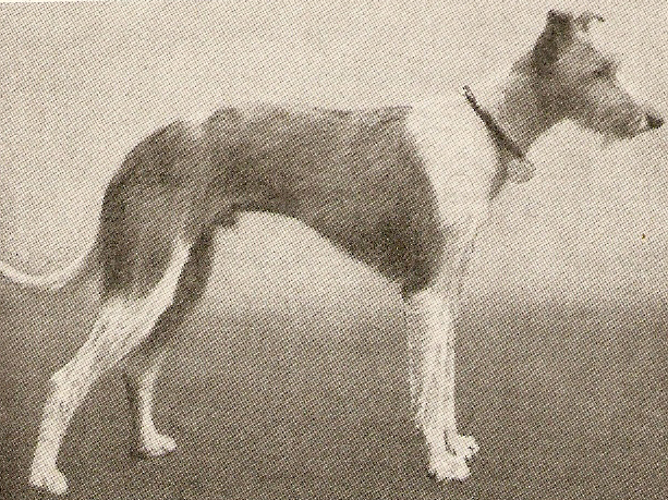 A wire-haired whippet from 1932.